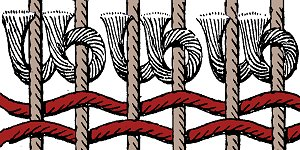 carpet knotting: Persian (asymmetric) knot, open to the left.